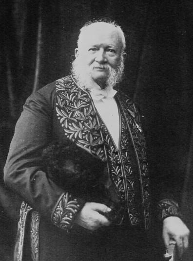 French inventor and industrialist Hilaire de Chardonnet (1839-1924) as a member of the Académie des sciences.